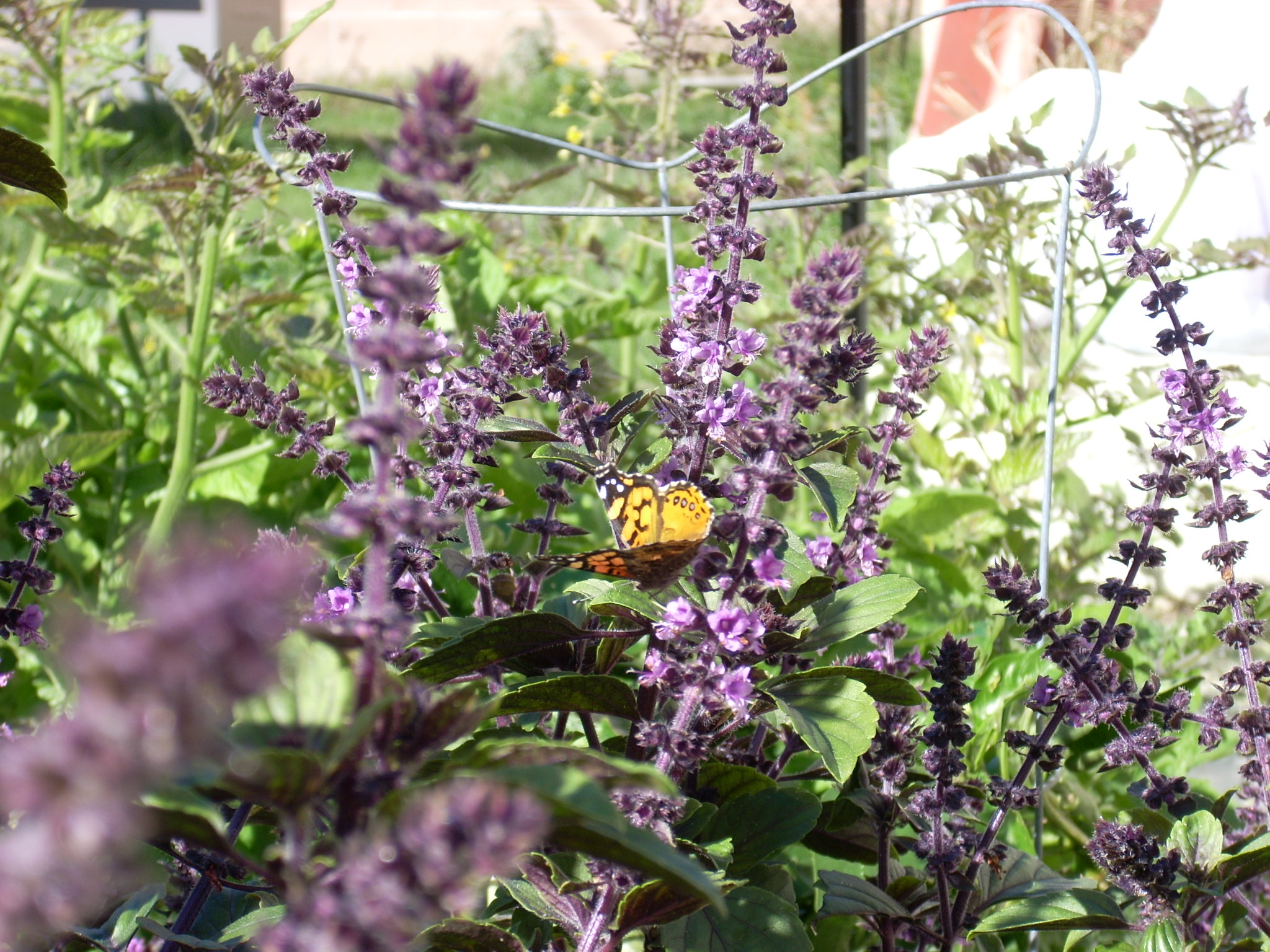 West Coast Lady butterfly feeding on African blue basil flowers, December 2007, Culver City, California, USA.